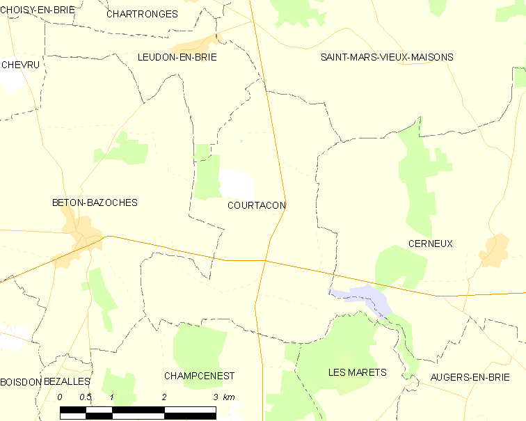 Map of French municipality Courtacon